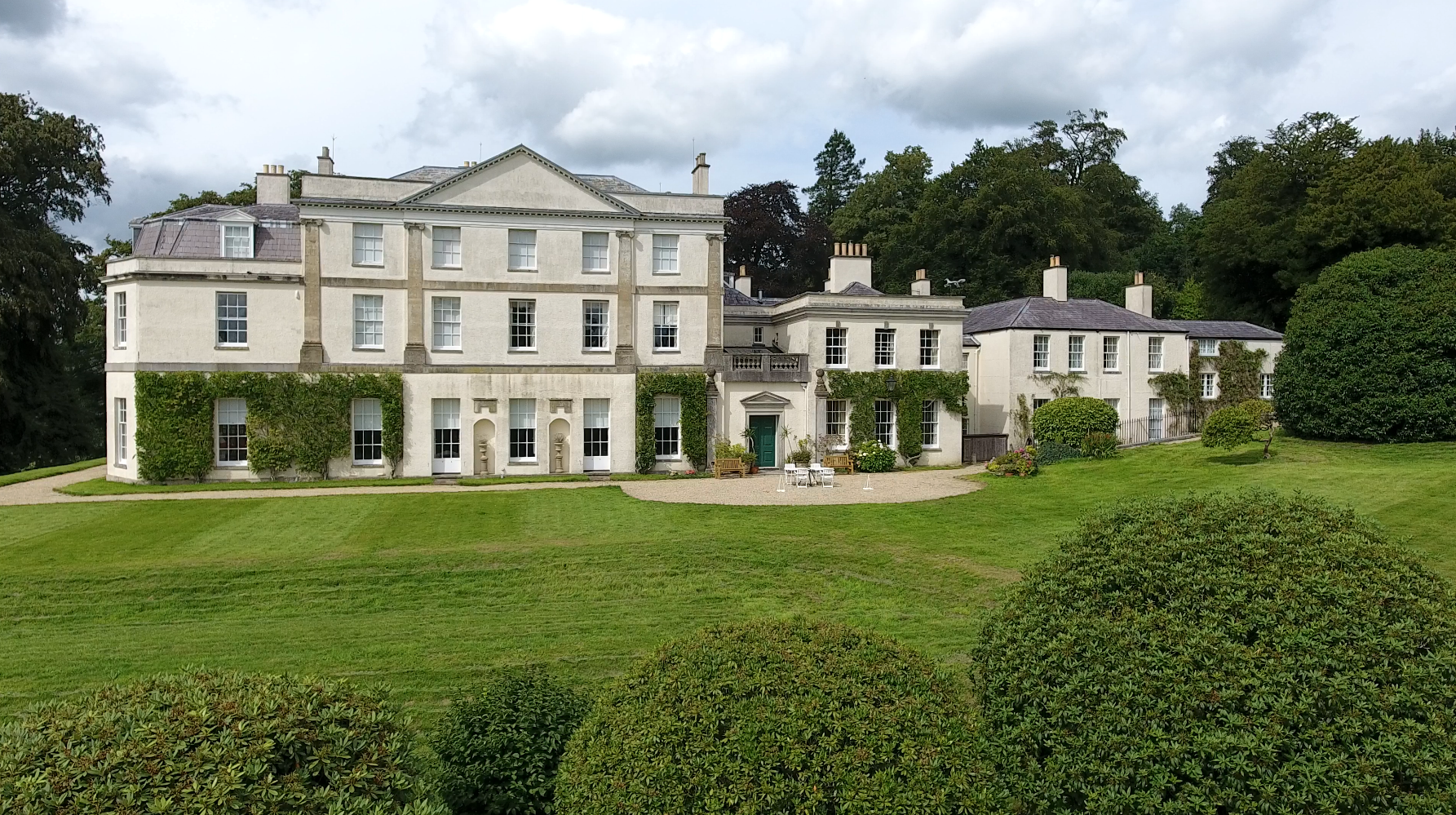 Pixton Park in the parish of Dulverton, Somerset, England. South front. Coordinates 51.0329°N 3.5323°W